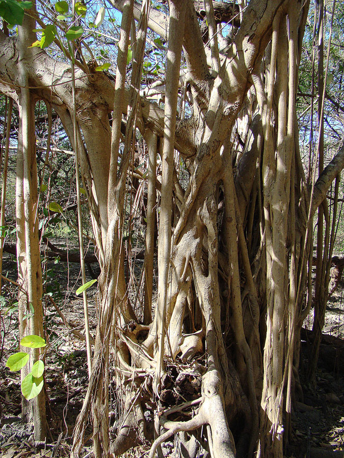 A complex Mesoamerican strangler fig or higueron. Photo from southwestern Nicaragua. In context at